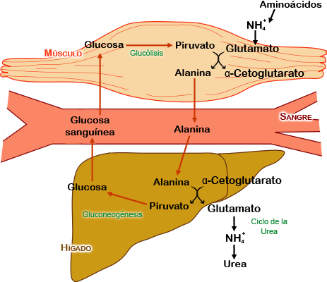 Derivated version of the Cori cicle, changes made so the Cahill cicle fits.